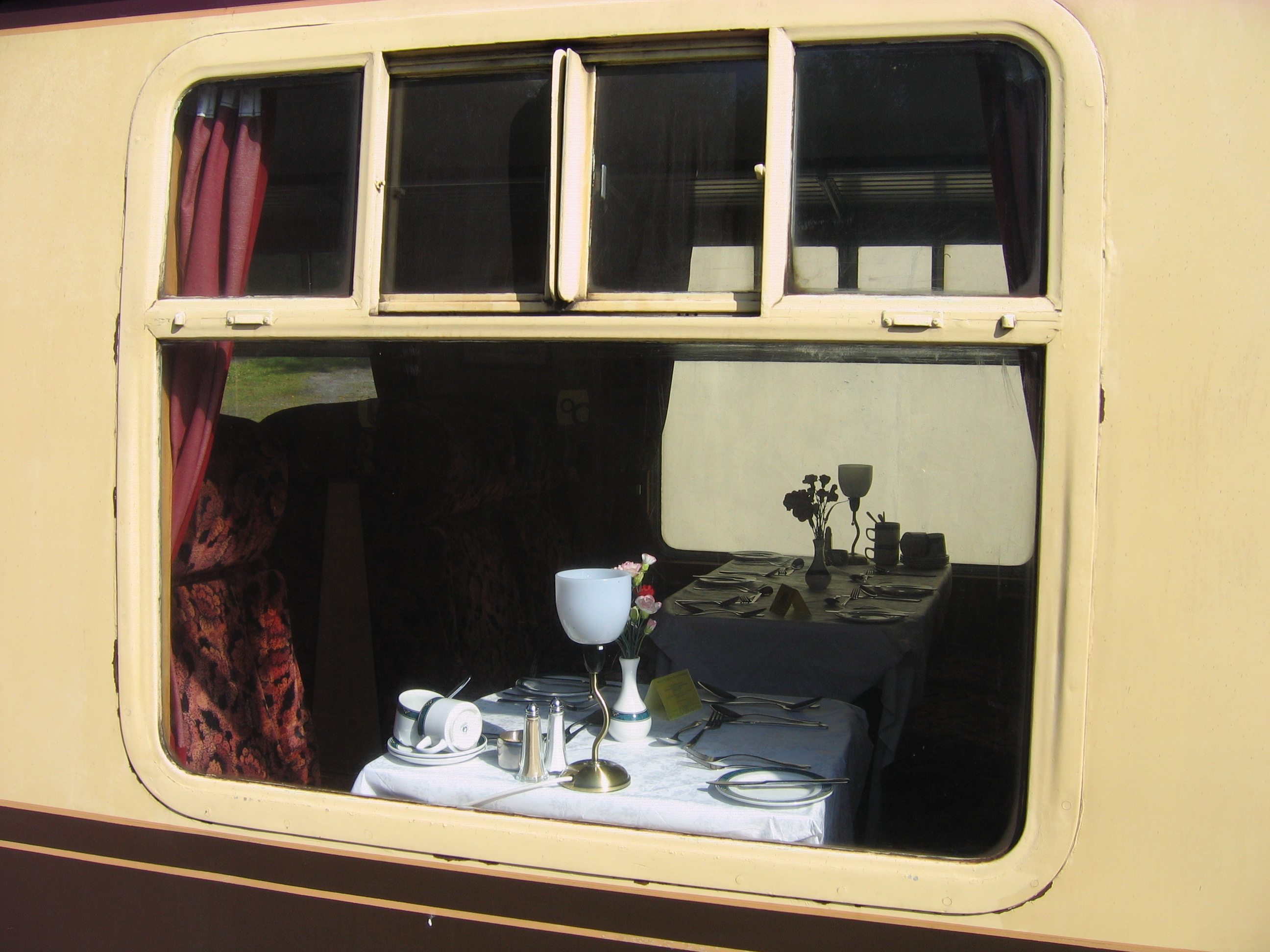 Pullman diner of NYMR